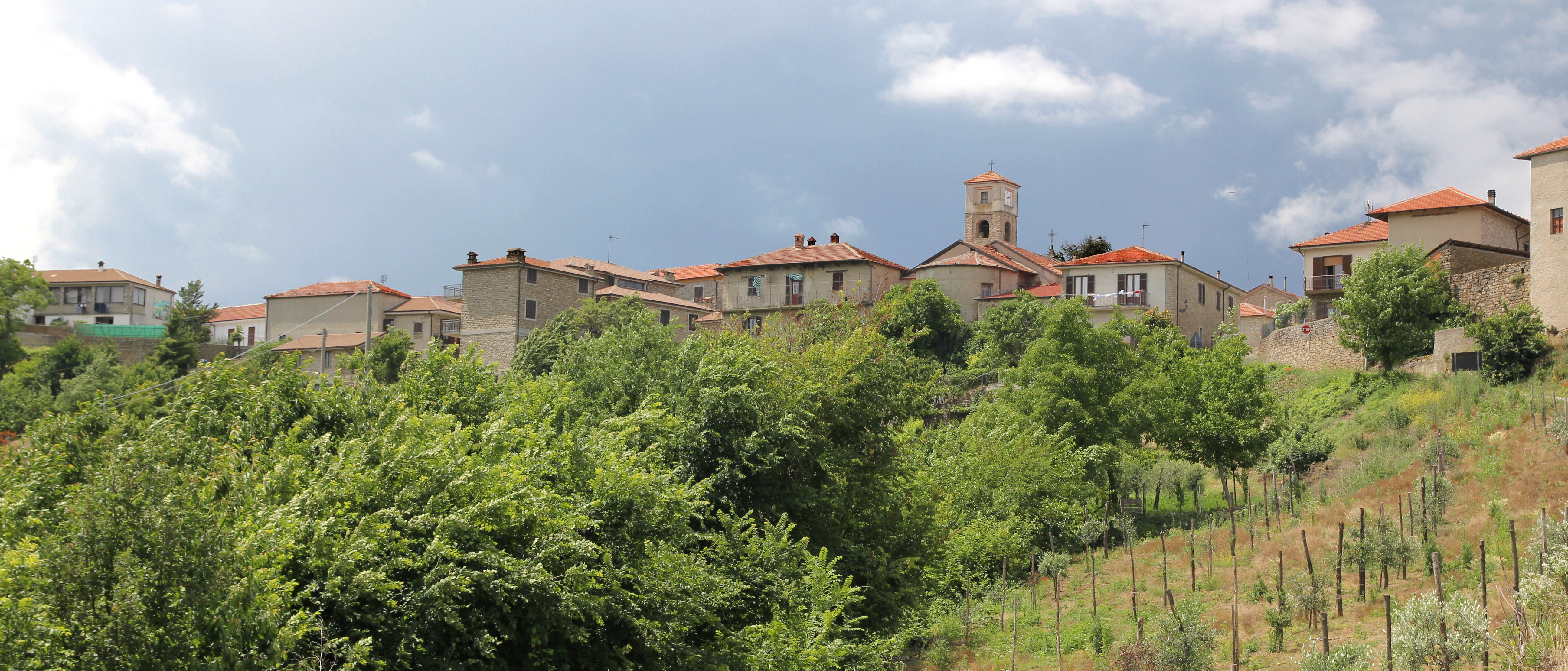 Bergolo, Italia